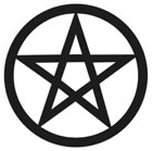 Pentacle is the sacred symbol used in nowdays Pagan religions. The Pagan pentacle represents the five elements on which is structured the cosmos; the apex at the top of the star enrolled in the circle represents the spirit of God that manifests itself in the nature of the universe.